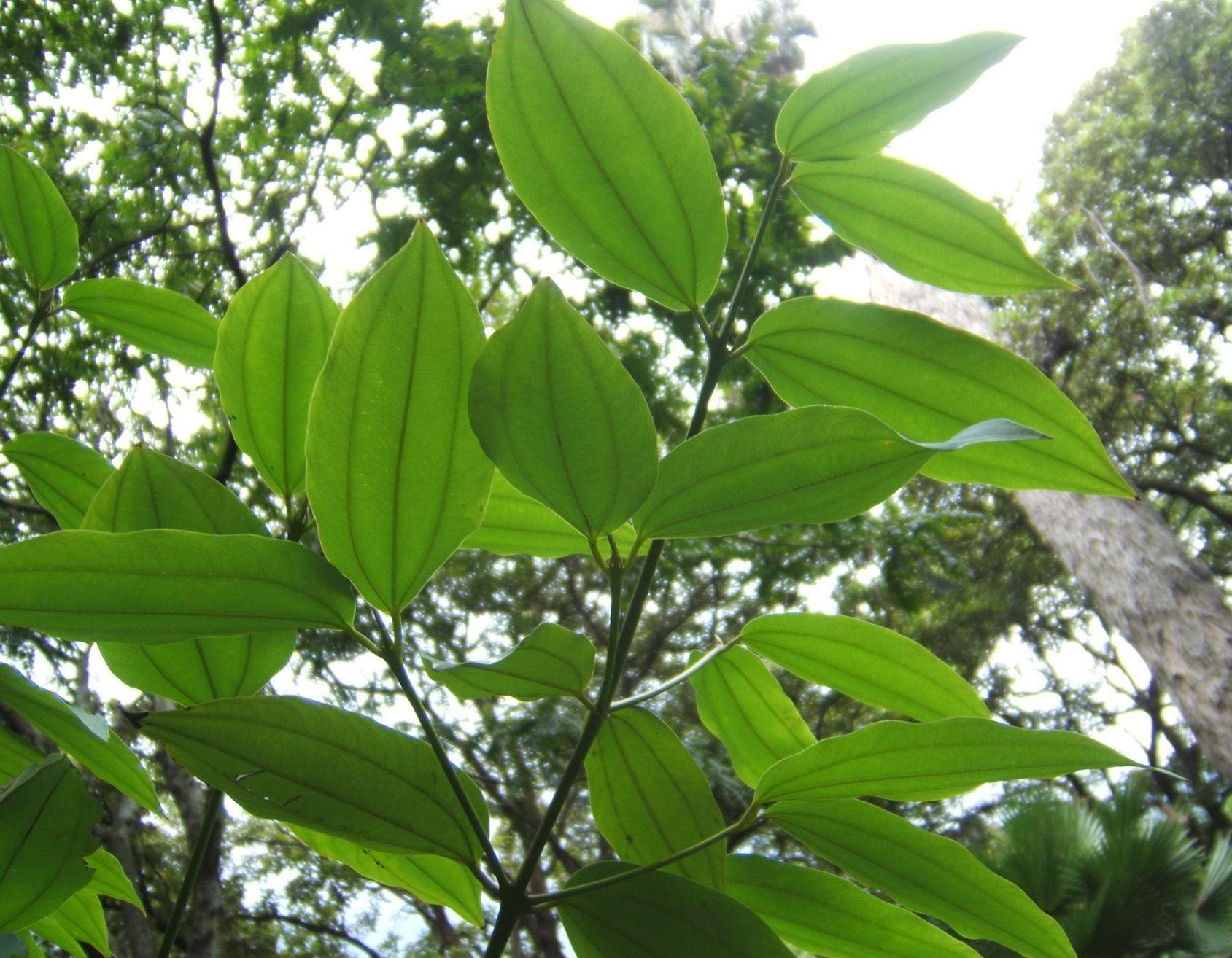 Lauraceae picture Caryodaphnopsis burgeri from Colombia, Costa Rica and Panama by Santiago Madriñán biologist in the Laboratorio de Botánica y Sistemática of Universidad de los Andes, Colombia.